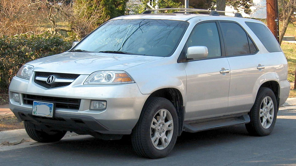 2004-2006 Acura MDX photographed in USA.